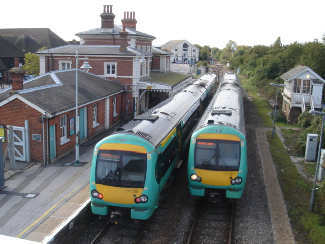 Brighton-bound (left) and Ashford-bound trains passing at Rye railway station. Photographed on en:30 September en:2007.